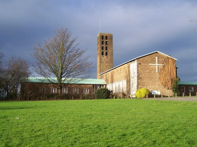 Emmanuel Church, Queen Elizabeth Avenue, Bentley, Walsall, West Midlands, seen from the east